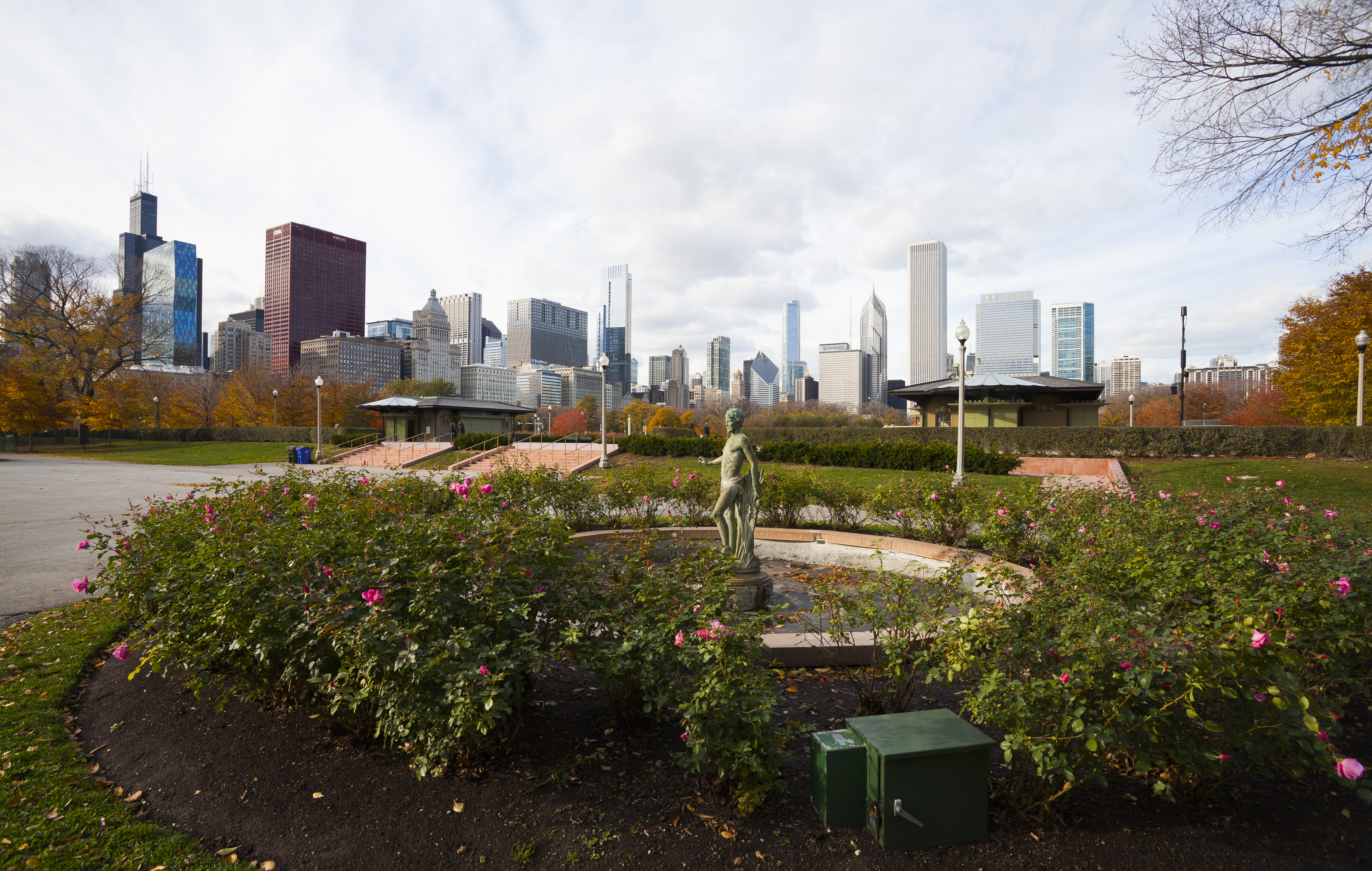 Grant Park, Chicago, Illinois, USA